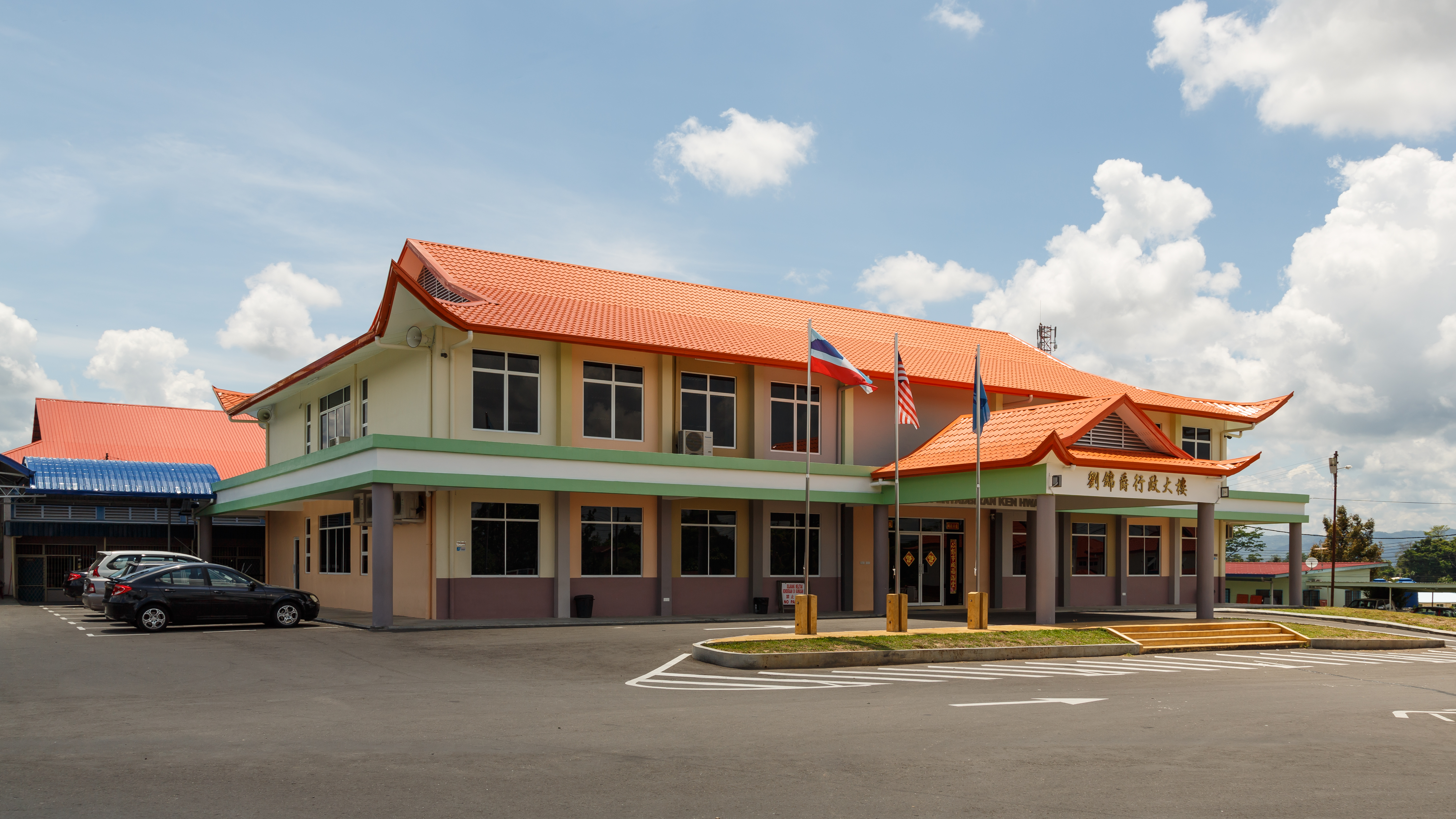 Keningau, Sabah: Sekolah Menengah Ken Hwa (CF)